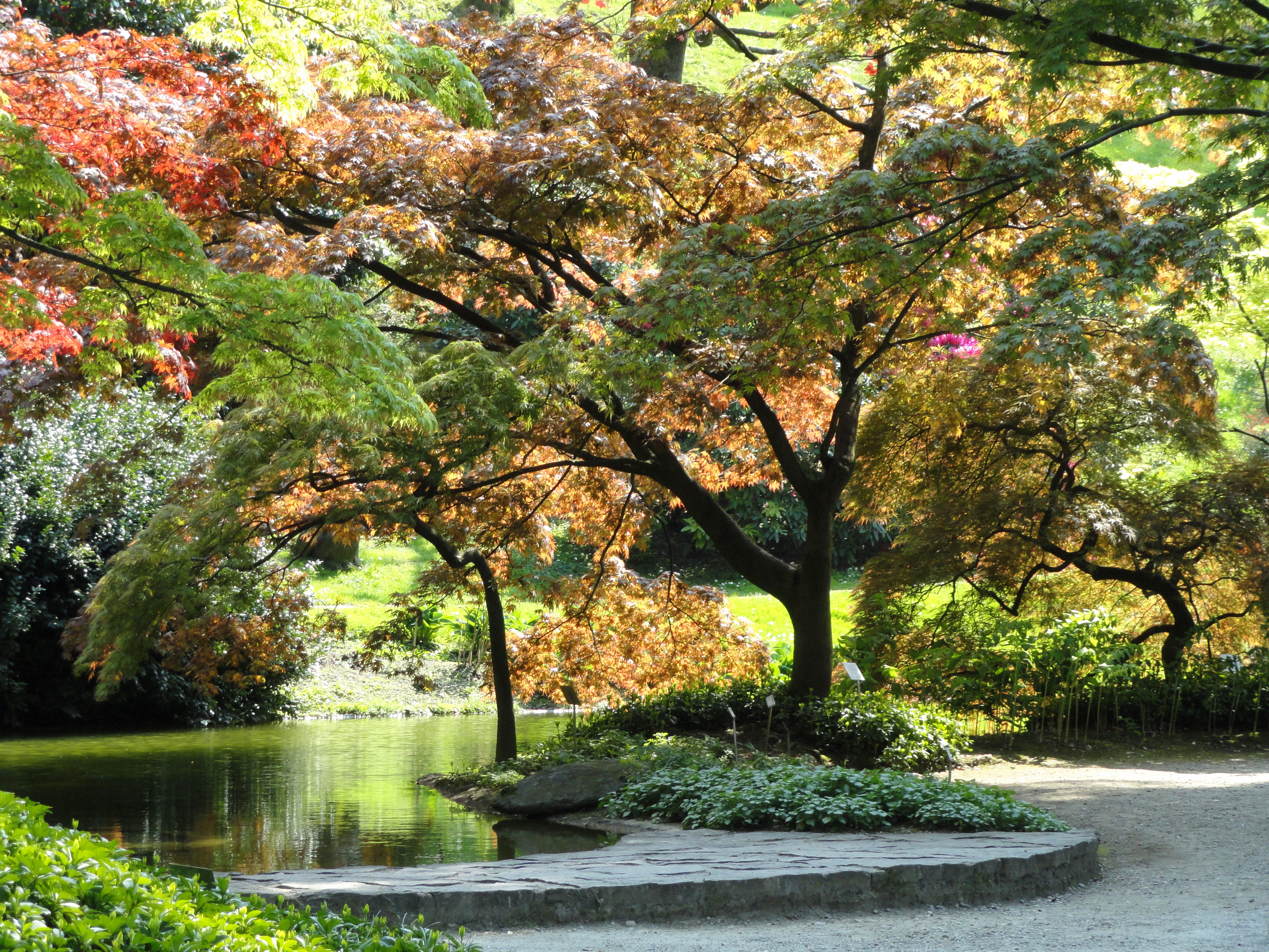 Garden of Villa Melzi d'Eril in Bellagio, on Lake Como, Italy.